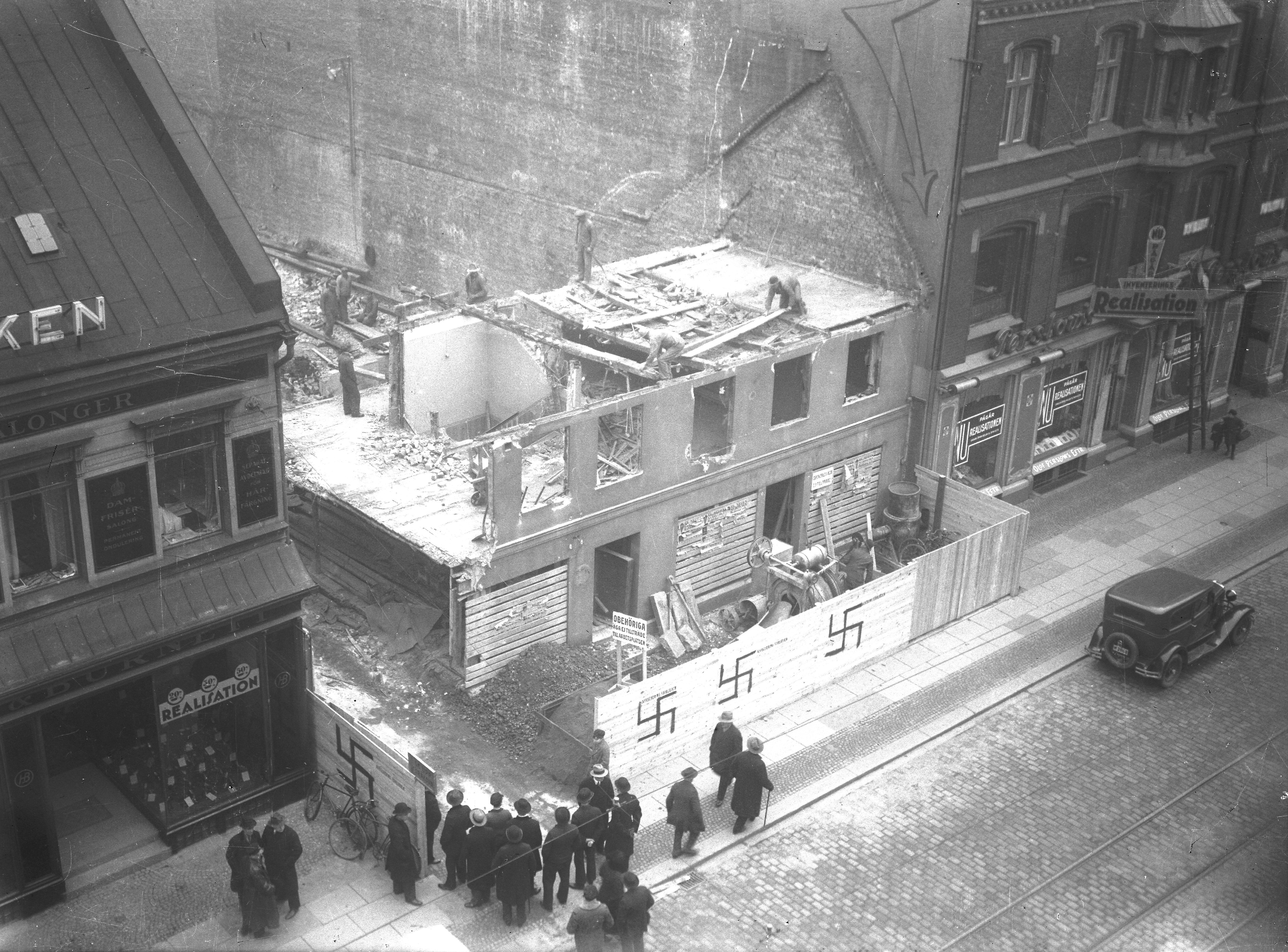 Nazi Symbols in Malmo, Sweden, 1930/1931 during demolition for the construction of the EPA's Department Store.